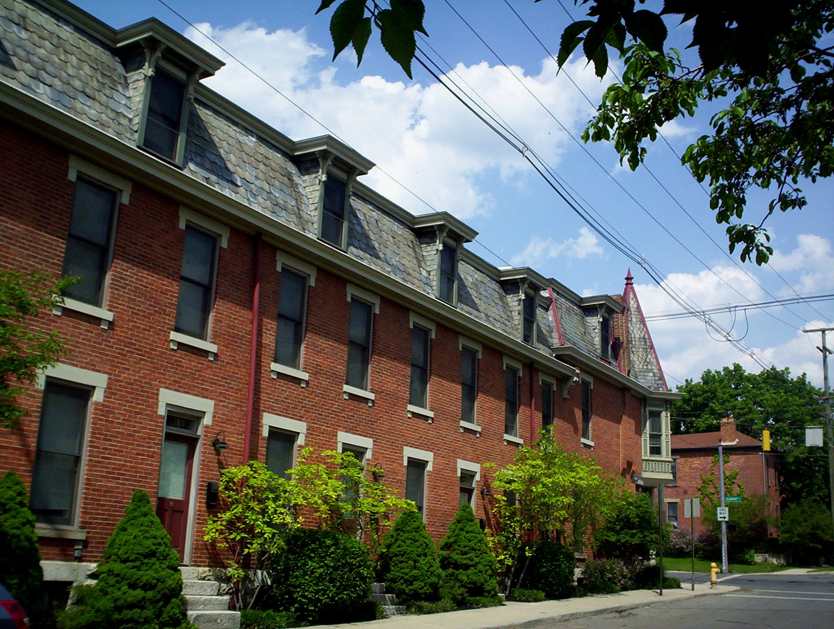 Housing in Italian Village.